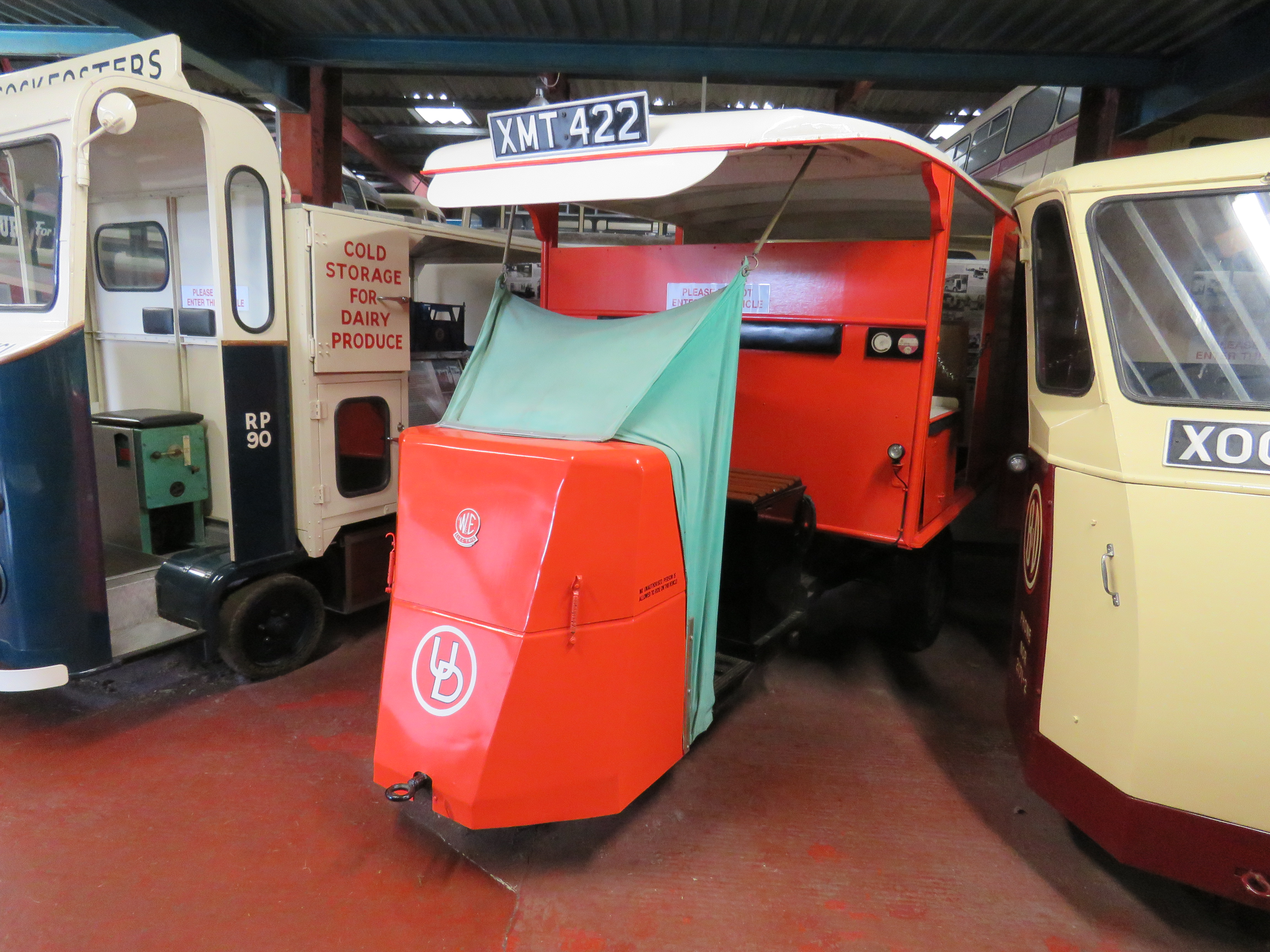 The first Wales & Edwards milk float produced for United Dairies in 1951. It was returned to W&E by United Dairies at the end of its life, and donated to the Wythall Transport Museum by W&E.